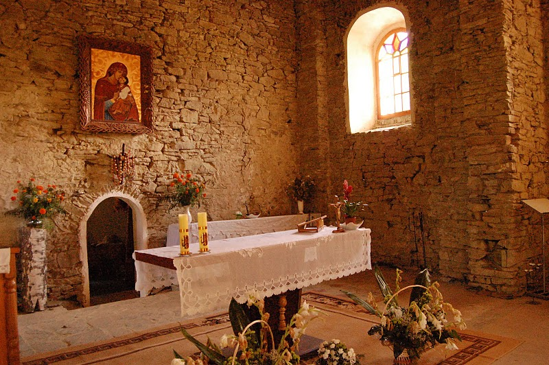 Greek catholic church in Łopienka in Bieszczady mountain in South Poland